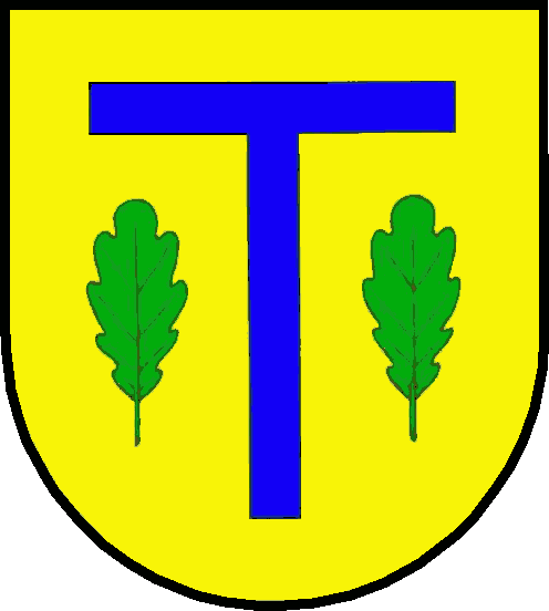 Coat of arms of Mohrkirch Blasonierung: In Gold ein blaues Antoniuskreuz, beiderseits begleitet von je einem grünen Eichenblatt.